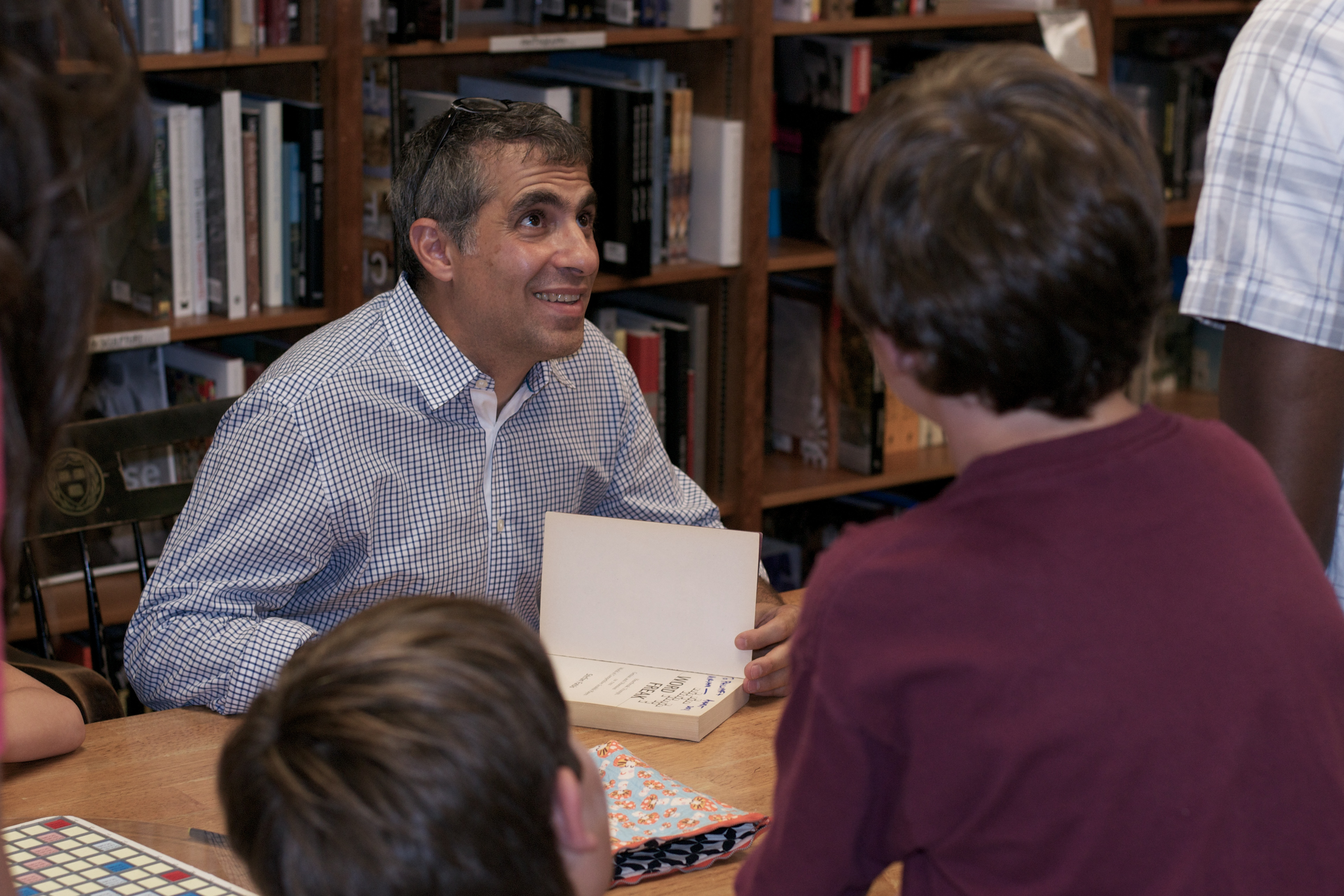 reading at Politics and Prose, Washington, D.C.